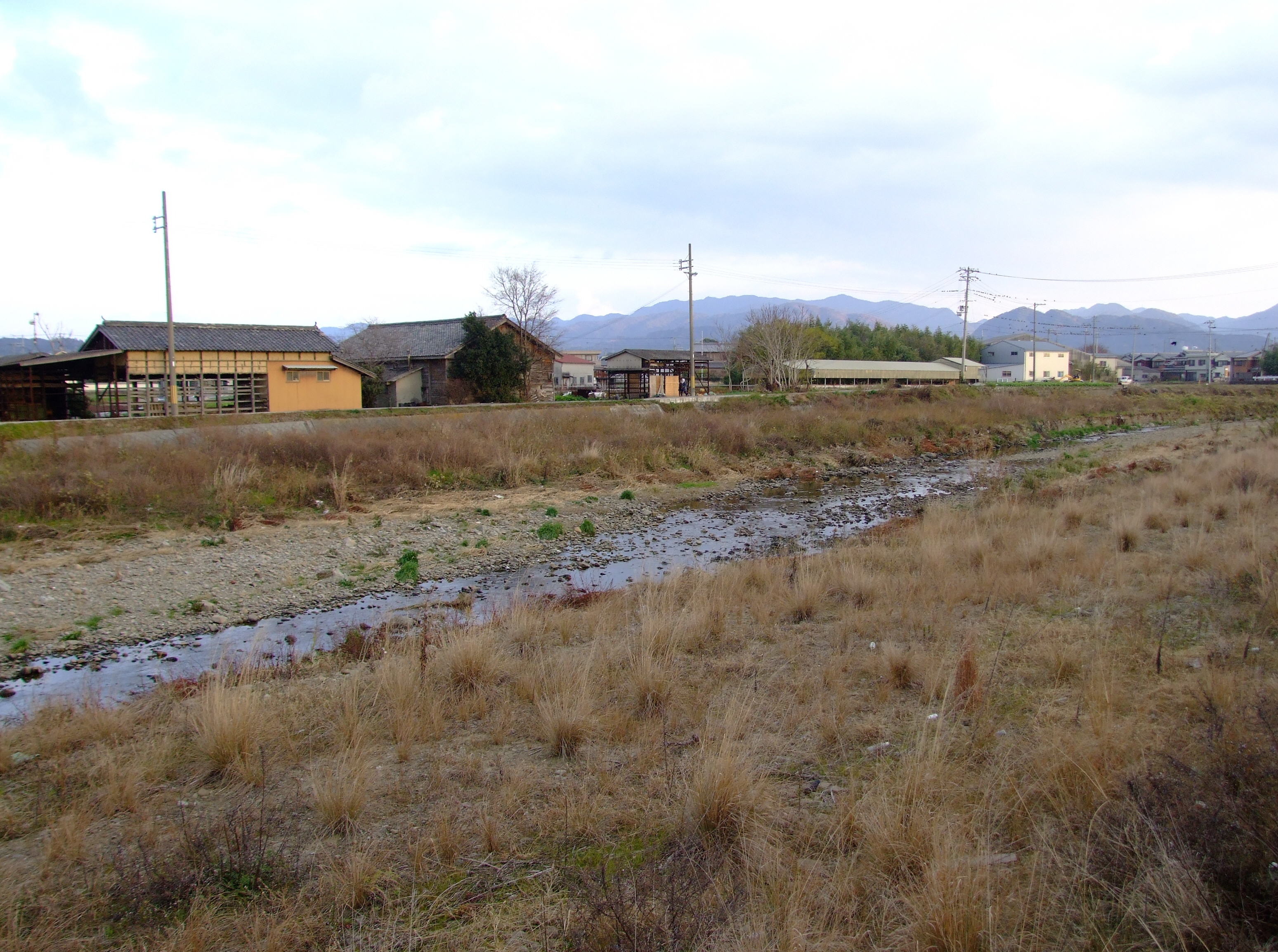 Mihara-gawa(River), Awaji-shima(island).